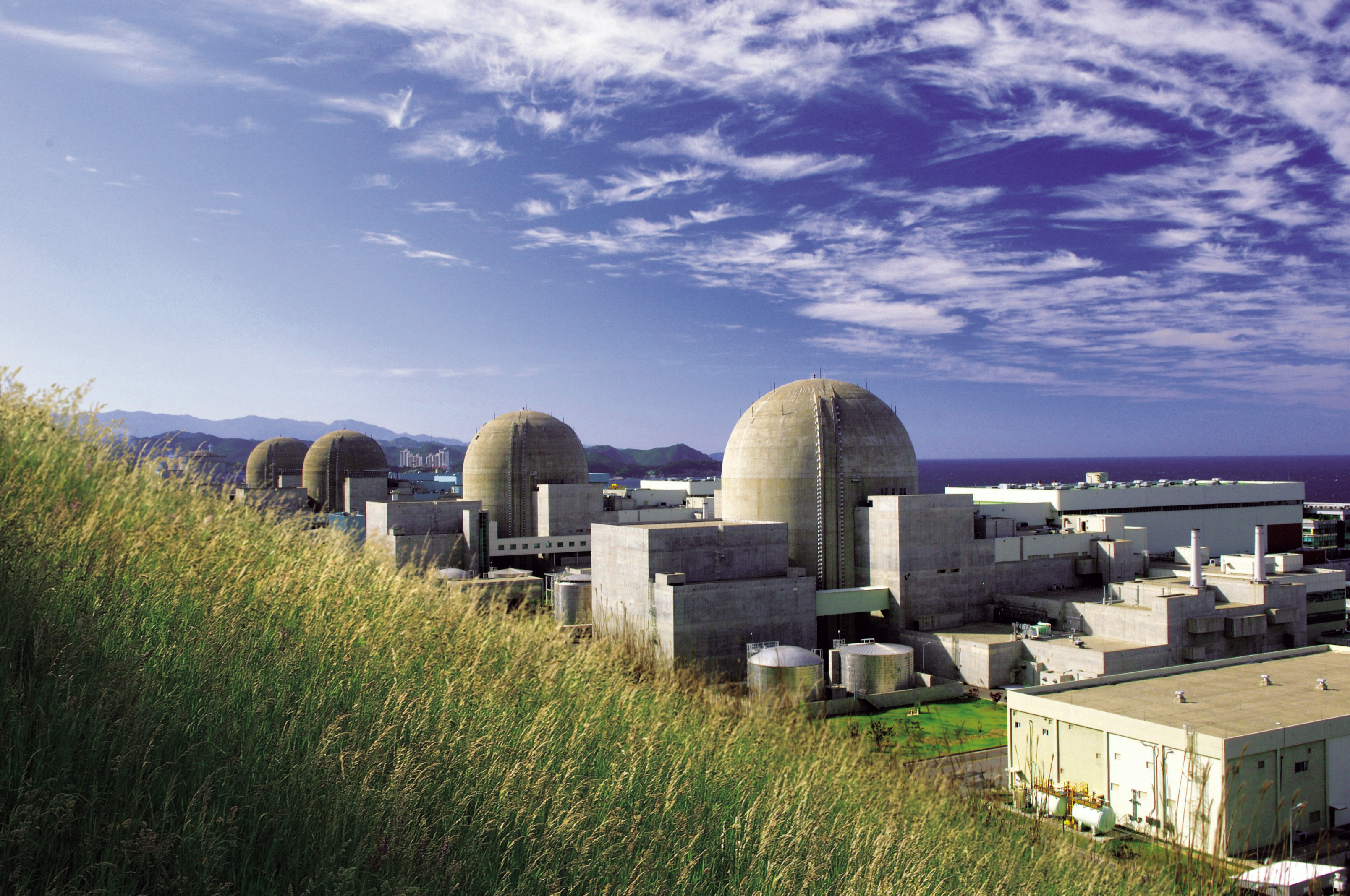 Korea Ulchin Nuclear Power Plant Photo Credit: Korea Ulchin NPP